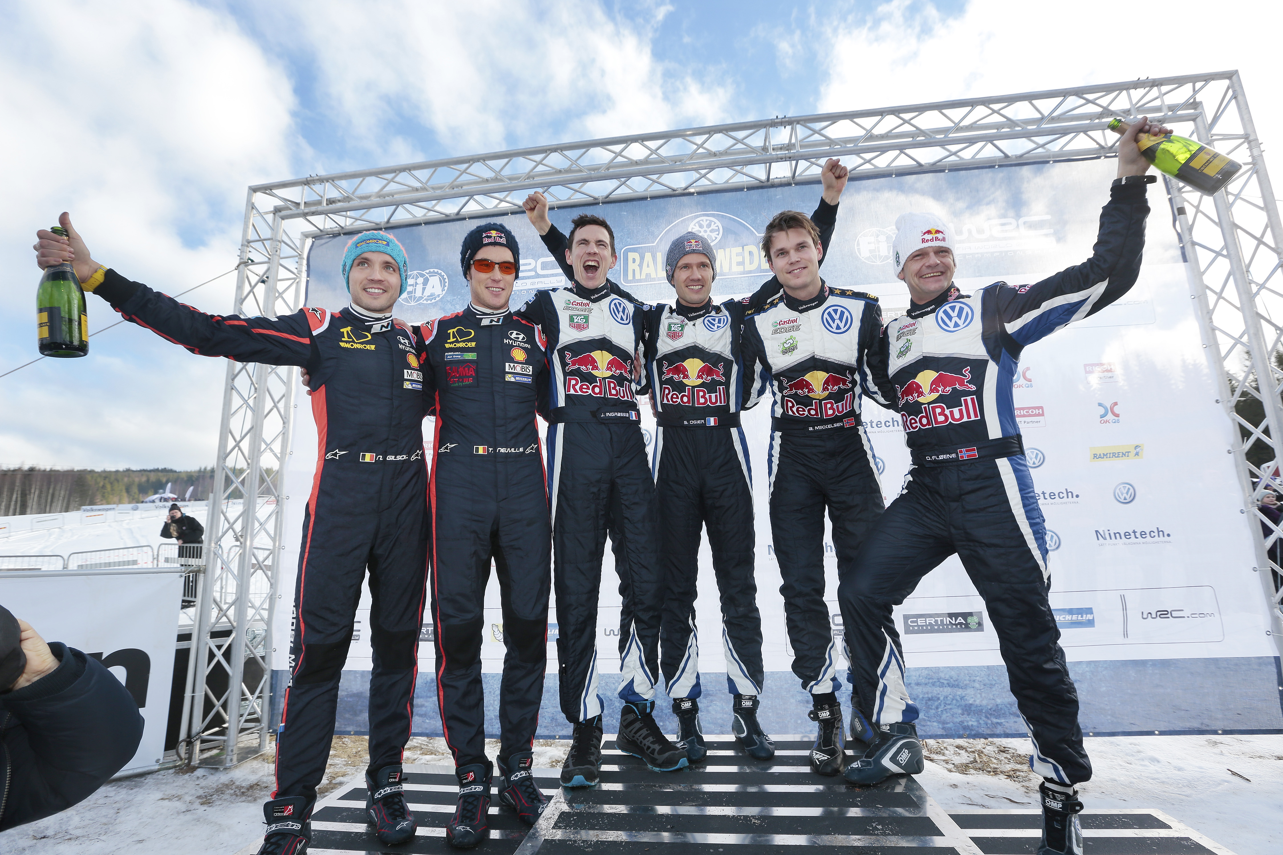 The podium after the 2015 Rally Sweden, from left to right: Nicolas Gilsoul (co-driver for Neuville), Thierry Neuville (2nd place), Julien Ingrassia (co-driver for Ogier), Sébastien Ogier (winner), Andreas Mikkelsen (3rd place) and Ola Fløene (co-driver for Mikkelsen).